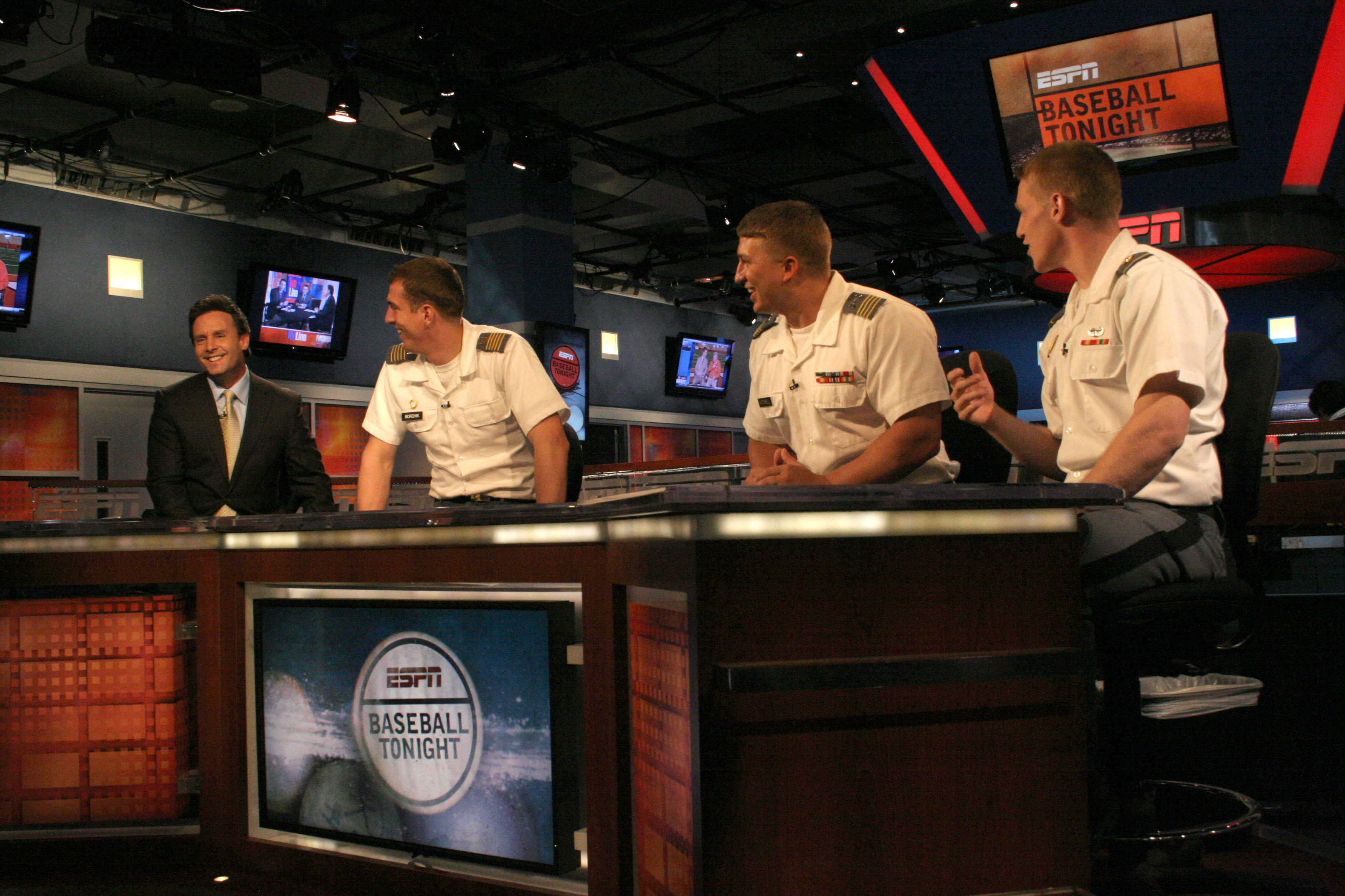 Karl Ravech, host of "Baseball Tonight" is joined by West Point Cadets Jason Borchik, Matt Kitchell and Justin Weeks in the ESPN studio as 29 cadets toured the headquarters of the sports network in Bristol, Ct., on March 31. Photo by Mike → This file has an extracted image: File:Karl Ravech 2011.jpg.